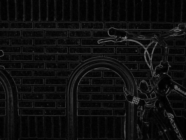 Grayscale image of a brick wall & bike rack convolved with a Roberts Cross operator.